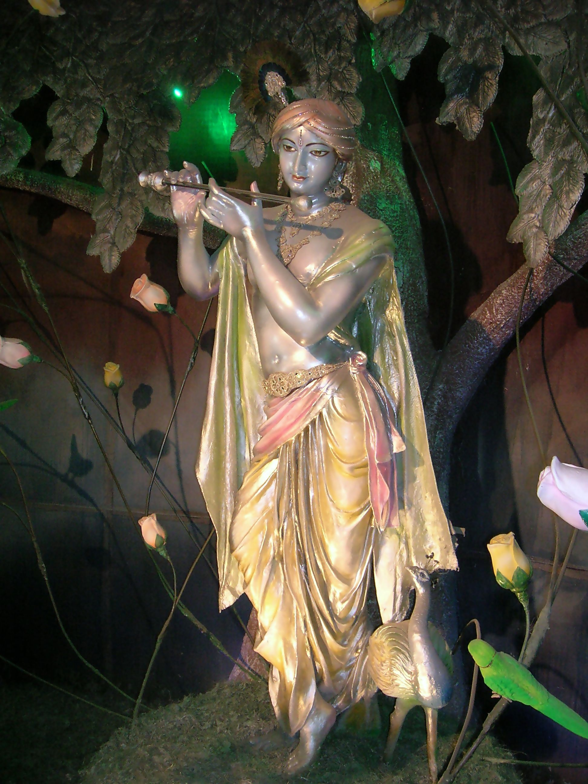 An idol of Lord Krishna at Kumartuli Park Sarbojanin Durga Puja pandal, North Kolkata, 2010.